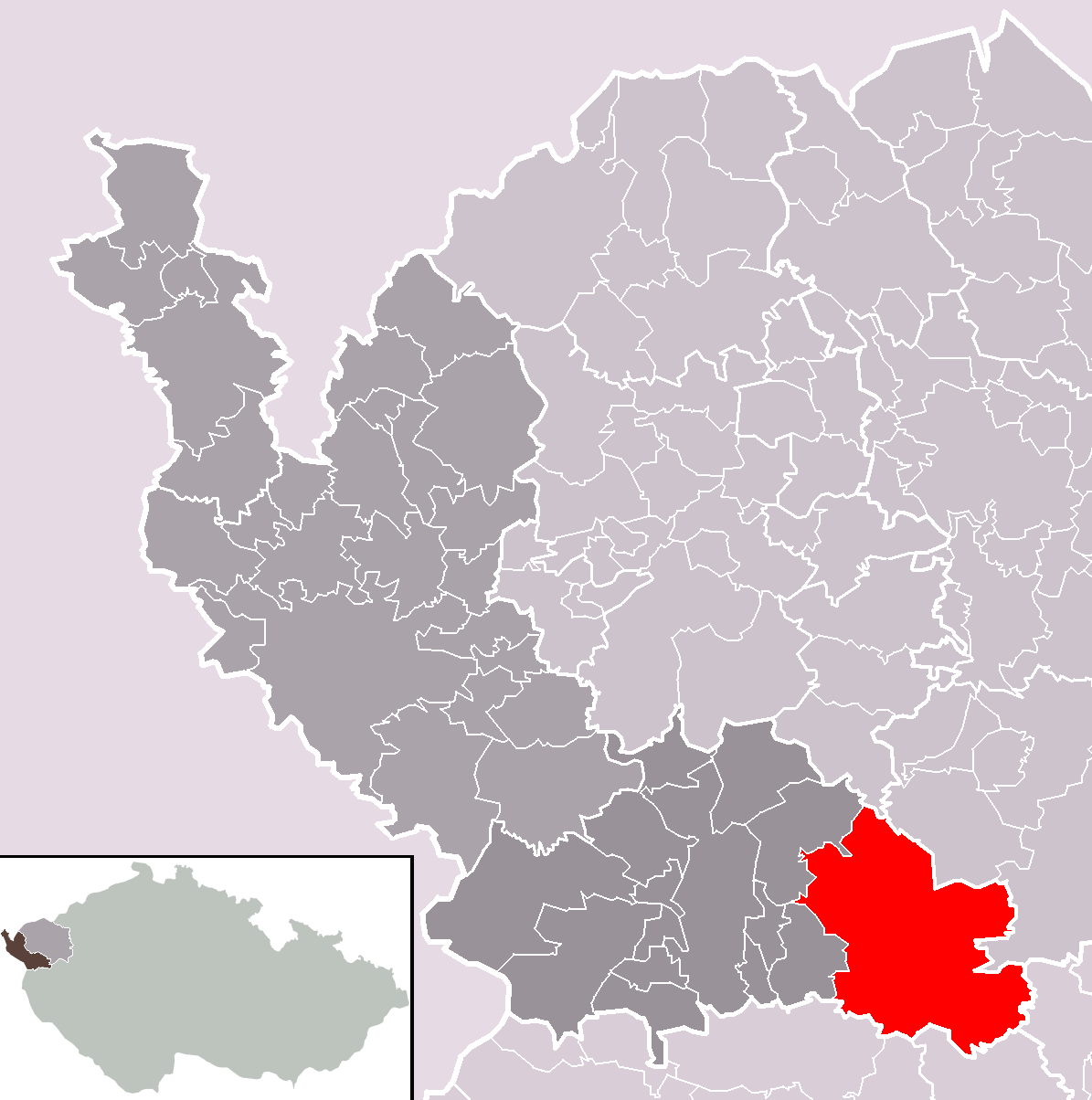 Location of Teplá town within Cheb District and administrative area of Mariánské Lázně as a Municipality with Extended Competence.